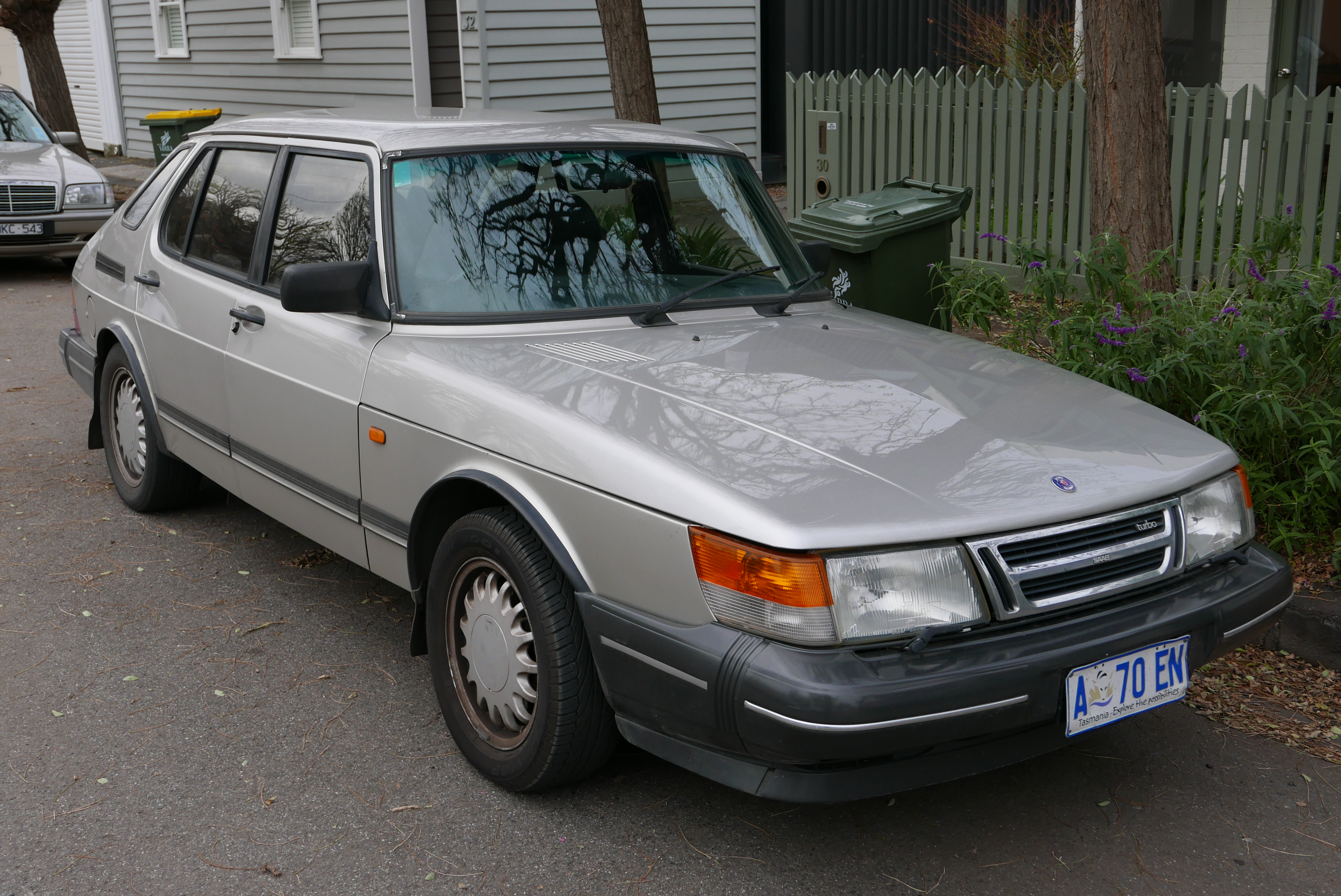 1993 Saab 900 (TU5M) Turbo 5-door hatchback. Photographed in Fitzroy North, Victoria, Australia. Vehicle registration enquiry results Jurisdiction Tasmania Registration A70EN Engine code B202L3M03P0345 Year of manufacture 1993